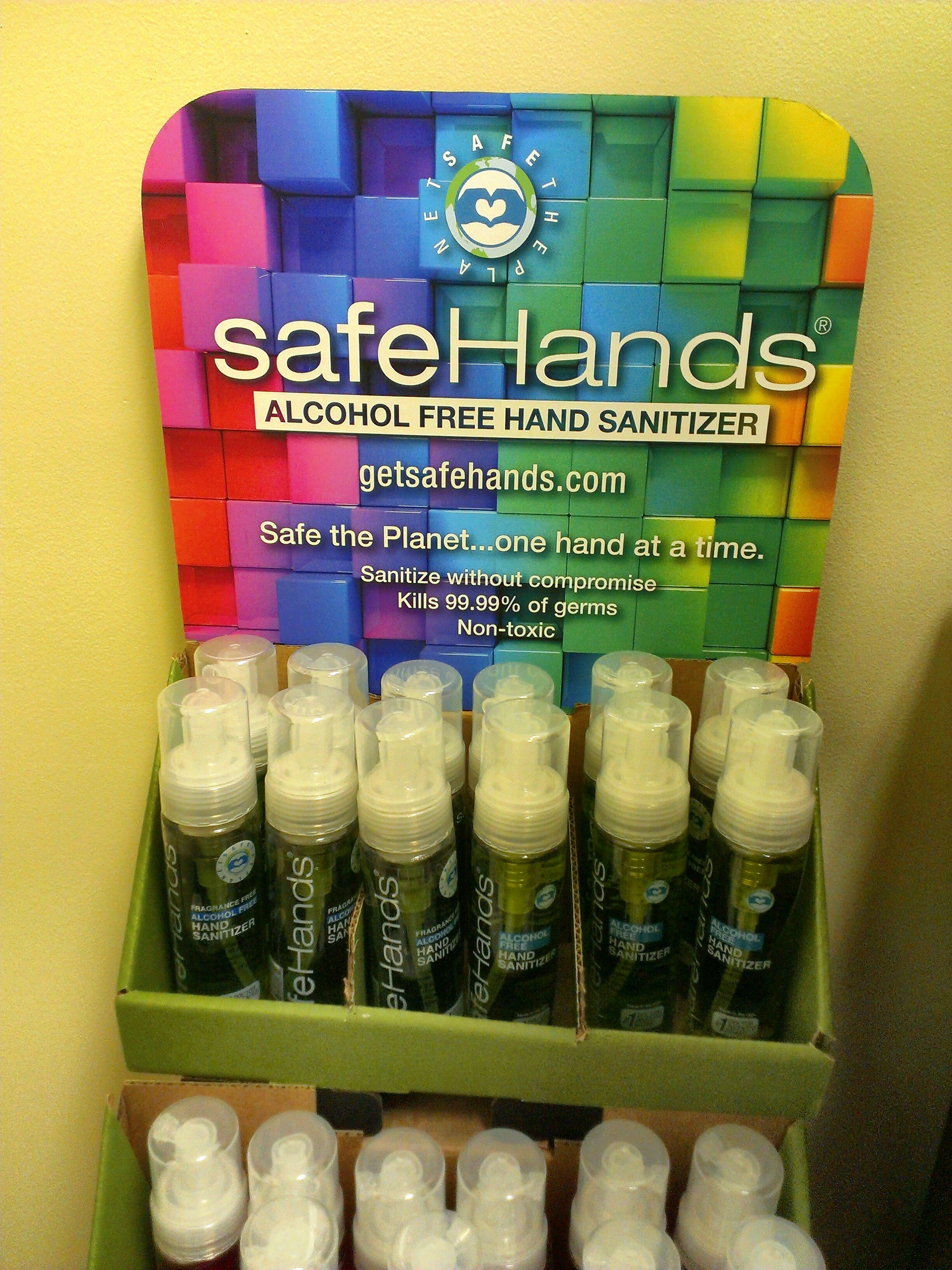 SafeHands brand alcohol free hand sanitizers. Because of the recent news with children drinking alcohol based sanitizer to get intoxicated, and because of fires, there has been a rush on alcohol free hand sanitizers.